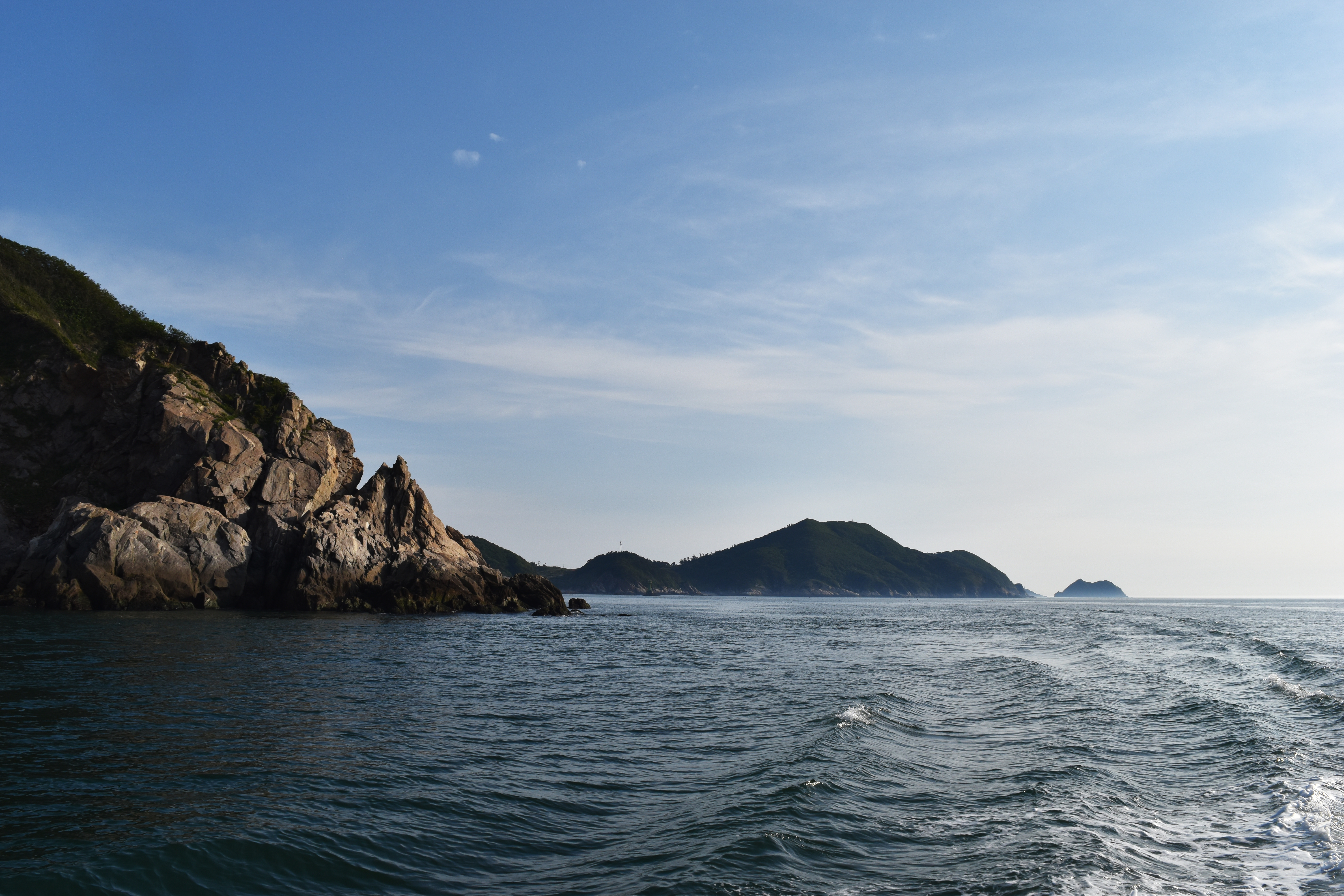 Gauido at Taeanhaean National Park